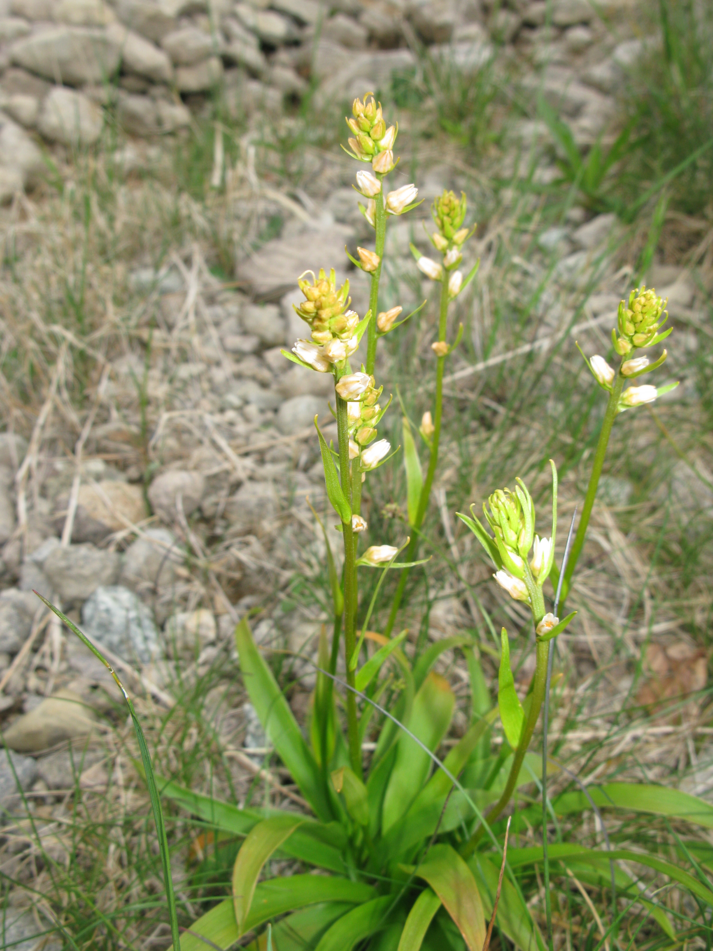 Aletris foliata, Mount Nishiazuma-yama, Yamagata pref., Japan